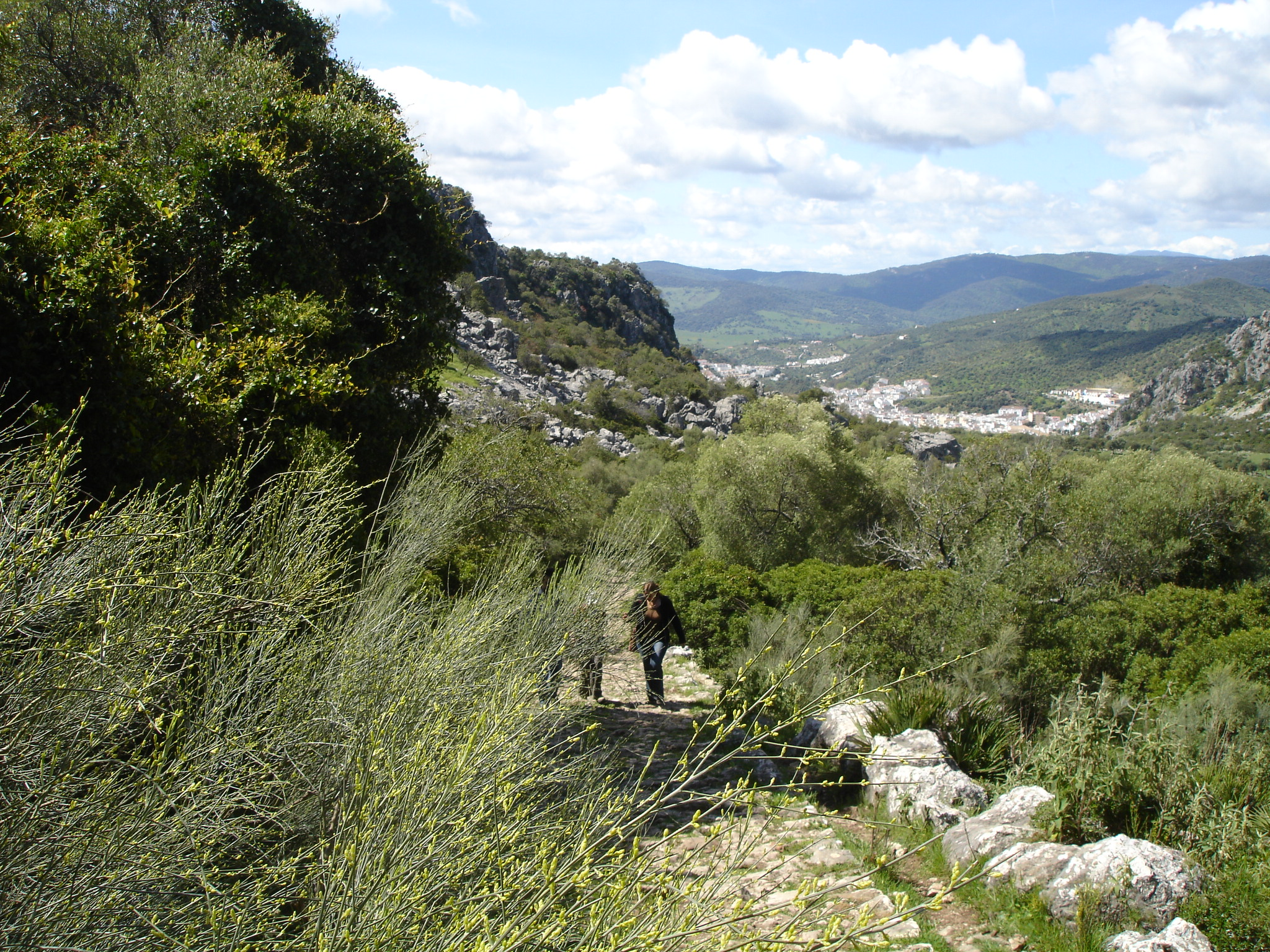 Roman path from Ubrique to Benaocaz, with Ubrique at the end